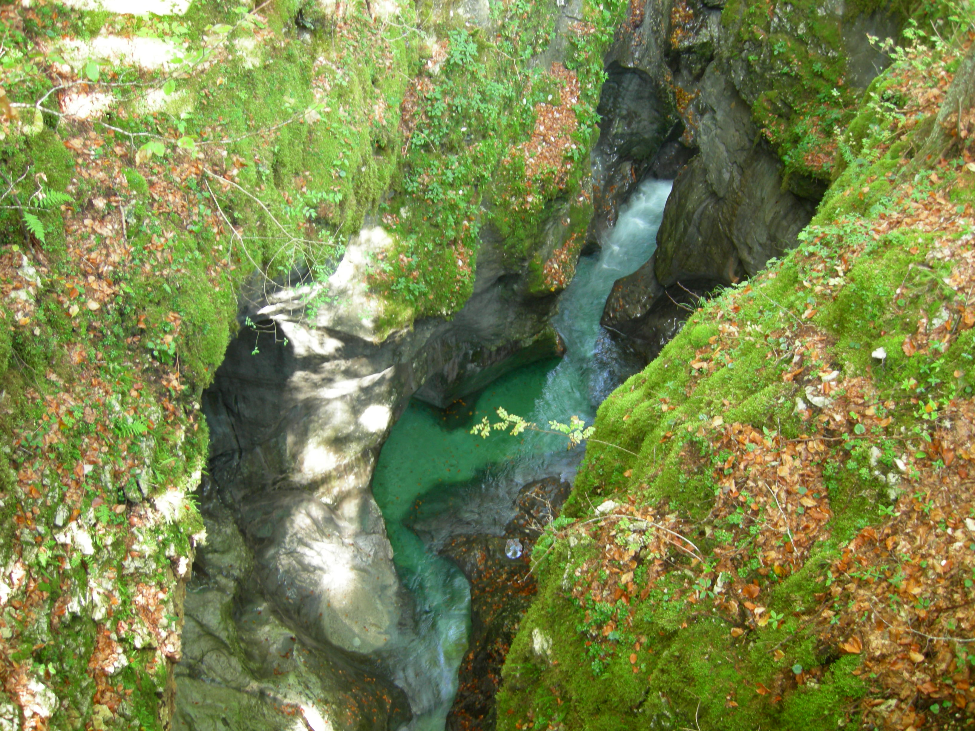 Korita Mostnice pri Bohinju Author: Pinky sl, 31 September 2006 (UTC)